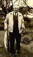 A picture of Leon Leonwood Bean.